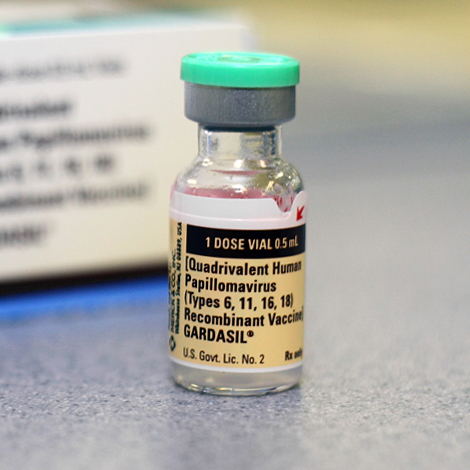 Description Gardasil vaccine and box Date13 February 2007, 16:20SourceDerivative work of Gardasil vaccine and boxAuthorJan Christian @ (Reusing this file)